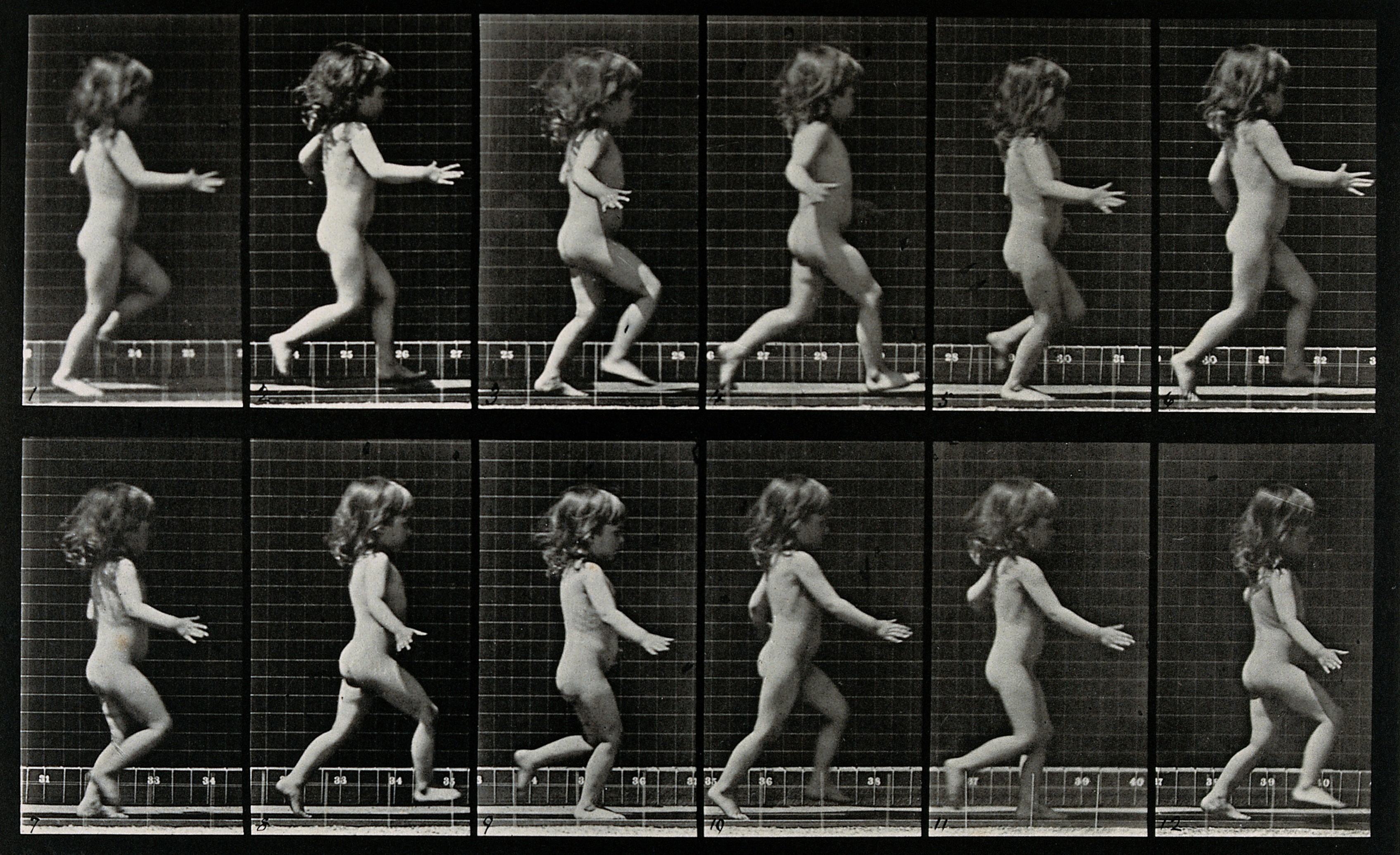 A little girl running. Photogravure after Eadweard Muybridge, 1887. Iconographic Collections Keywords: University of Pennsylvania.; Eadweard Muybridge